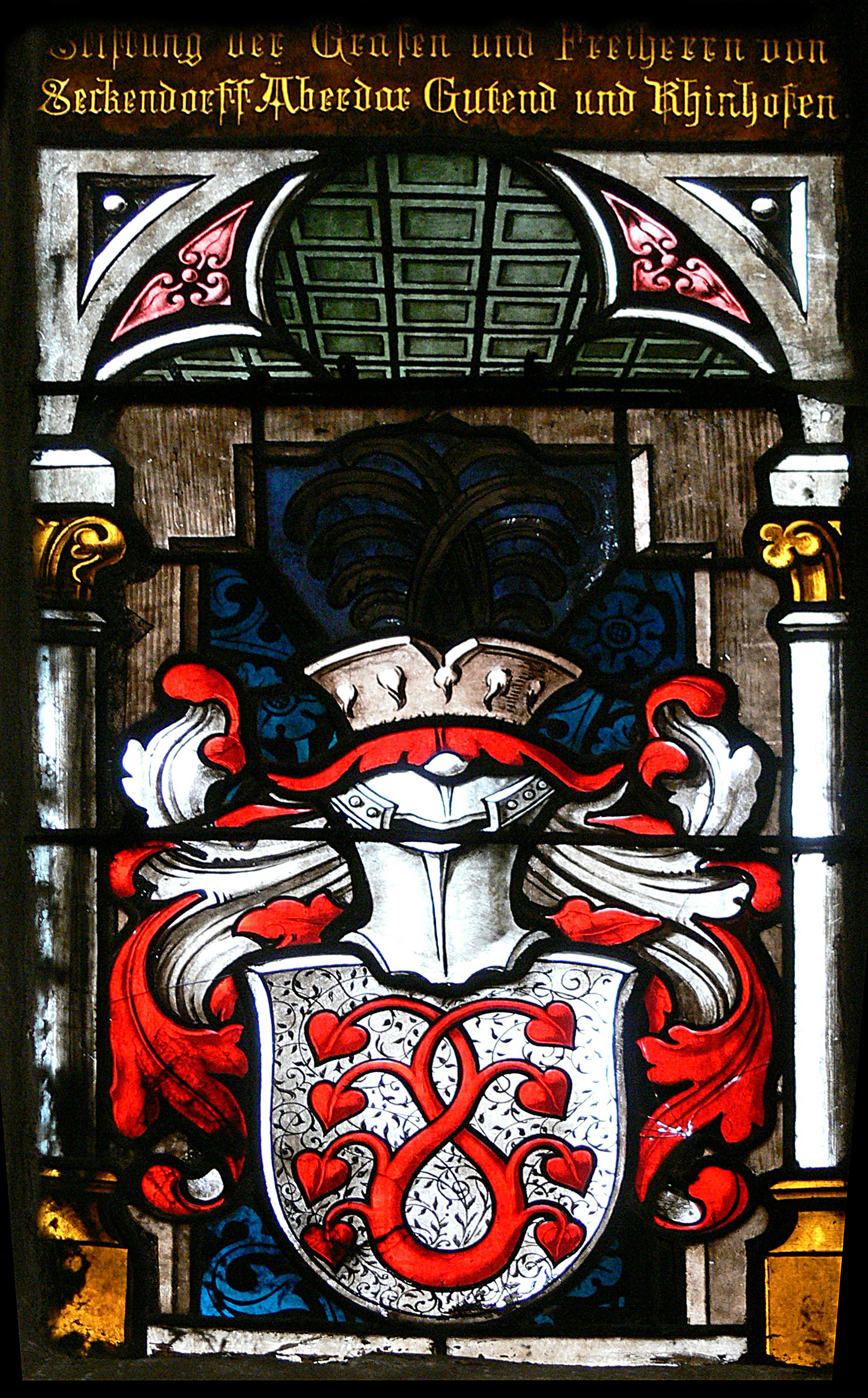 Langenzenn ( Bavaria ). City church - Gothic revival windows: Coats of arms of the house of Seckendorff.